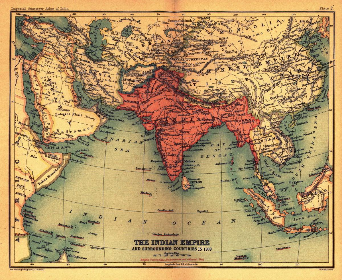 Map, "The Indian Empire and surrounding countries" (1909), Imperial Gazetteer of India.